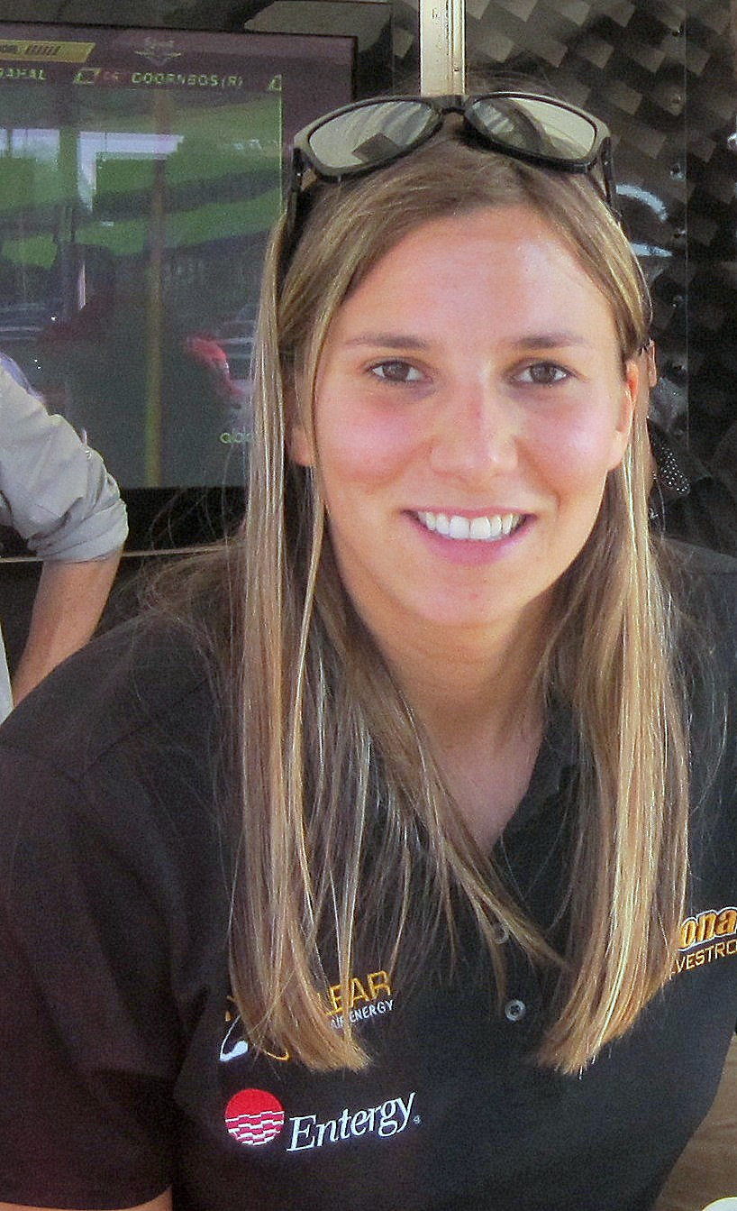 HVM Racing's Simona De Silvestro at the 2010 Indianapolis 500 opening weekend autograph session at Castleton Square Mall in Indianapolis, Indiana on Friday, May 14, 2010.